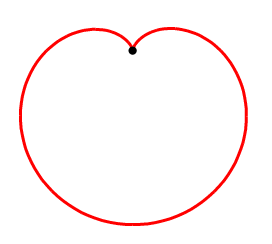 The cardioid with equation r = a(1 - sinθ)